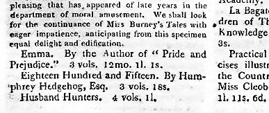 The New Monthly Magazine, issue for February 1, 1816 (volume V, issue No. 25), page 66 – two lines about Jane Austen's Emma